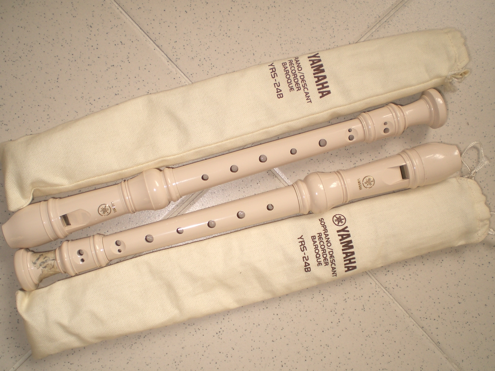 山葉株式會社 樂器 牧童笛 YAMAHA Musical instruments Author= RoxRox